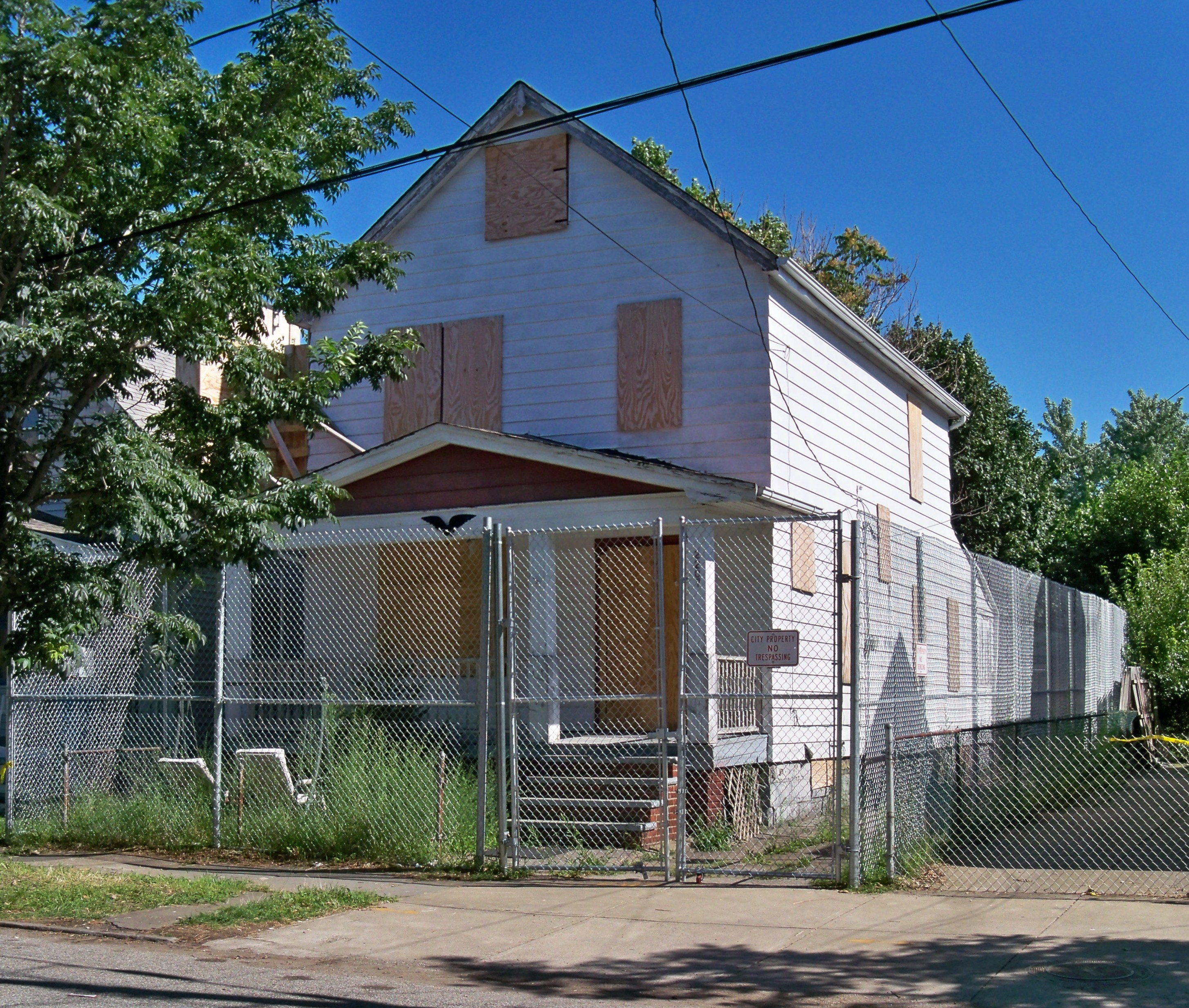 Ariel Castro's home at 2207 Seymour Avenue in Cleveland Ohio. Amanda Berry, Gine DeJesus, and Michelle Knight were held in this house.